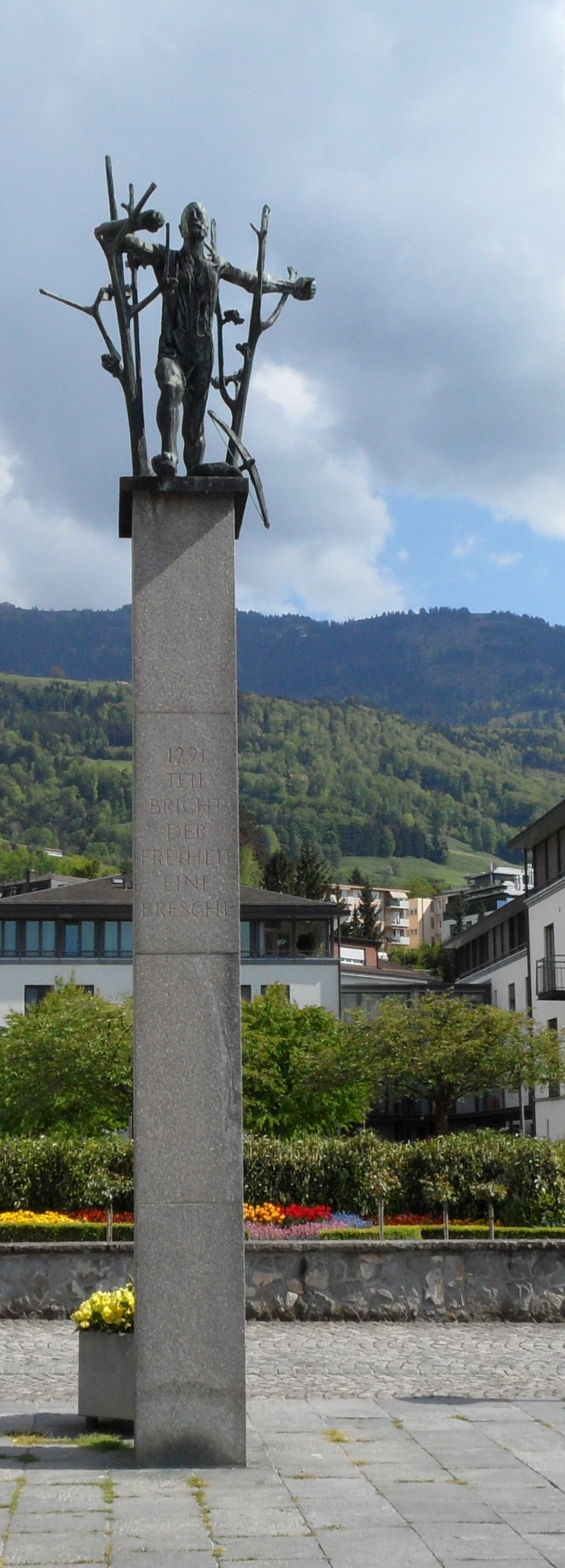 Wilhelm Tell monument by Emilio Stanzani in Küssnacht am Rigi, canton of Schwyz, Switzerland.